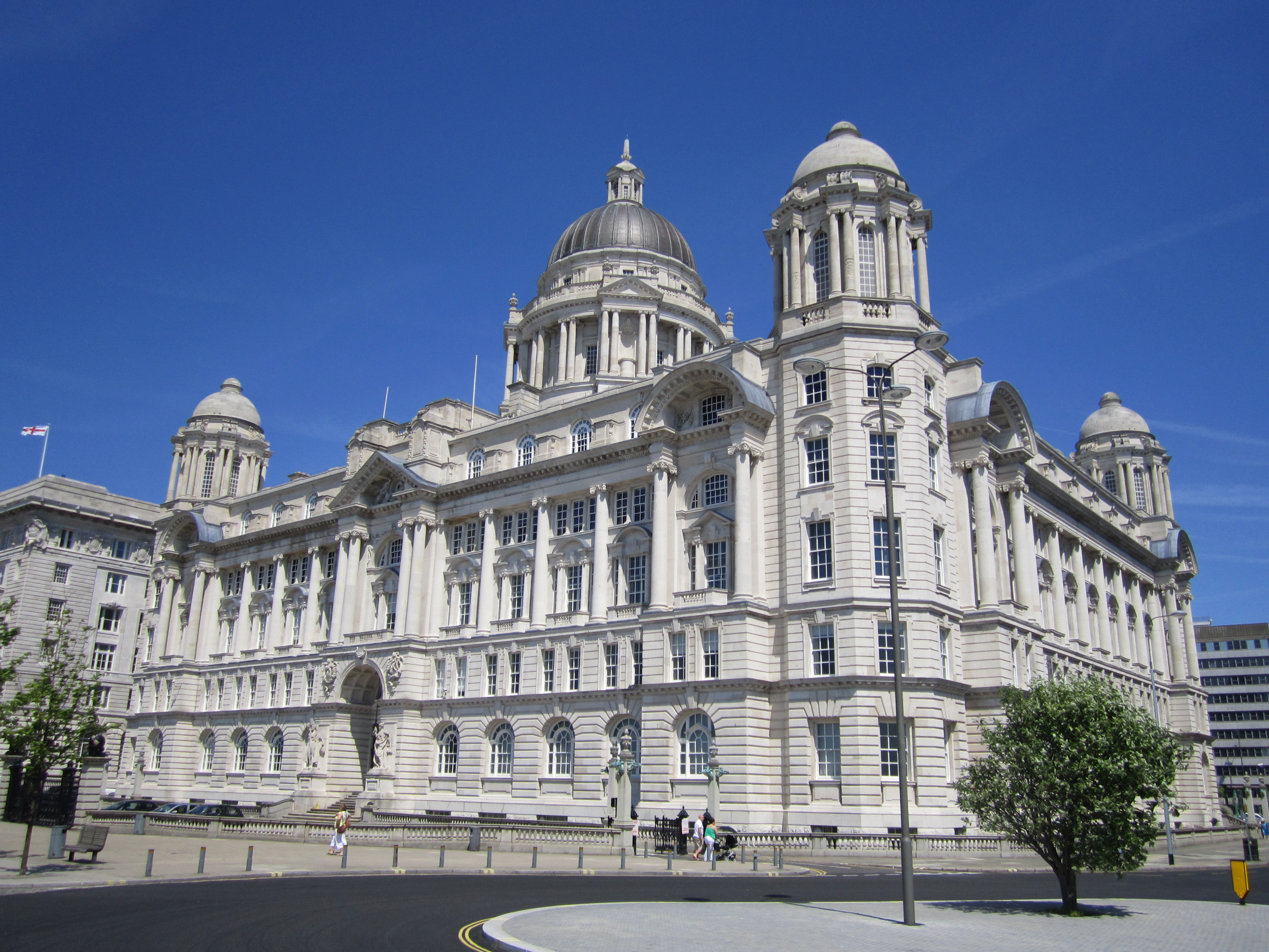 Port of Liverpool building, Pier Head, Liverpool, England.